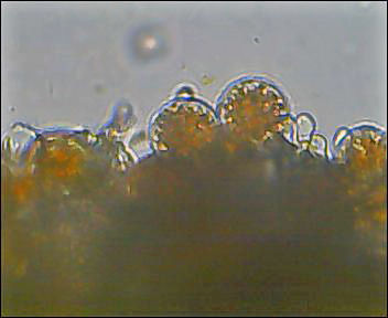 Puccinia recondita f.sp. tritici on Triticum aestivum, uredosore